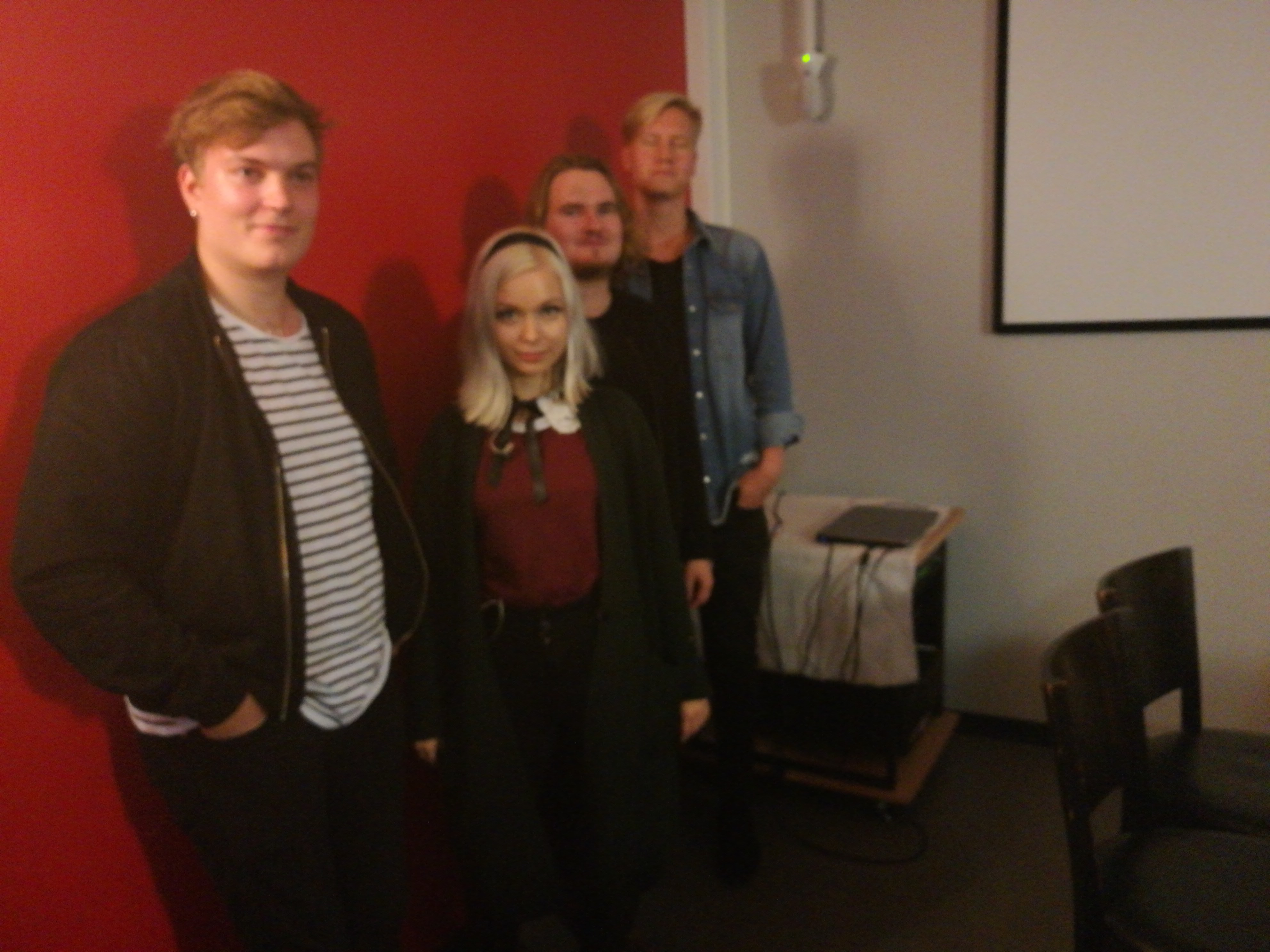 The band Mafia Honey on 18 October 2019 at the Kerubi in Joensuu, Finland